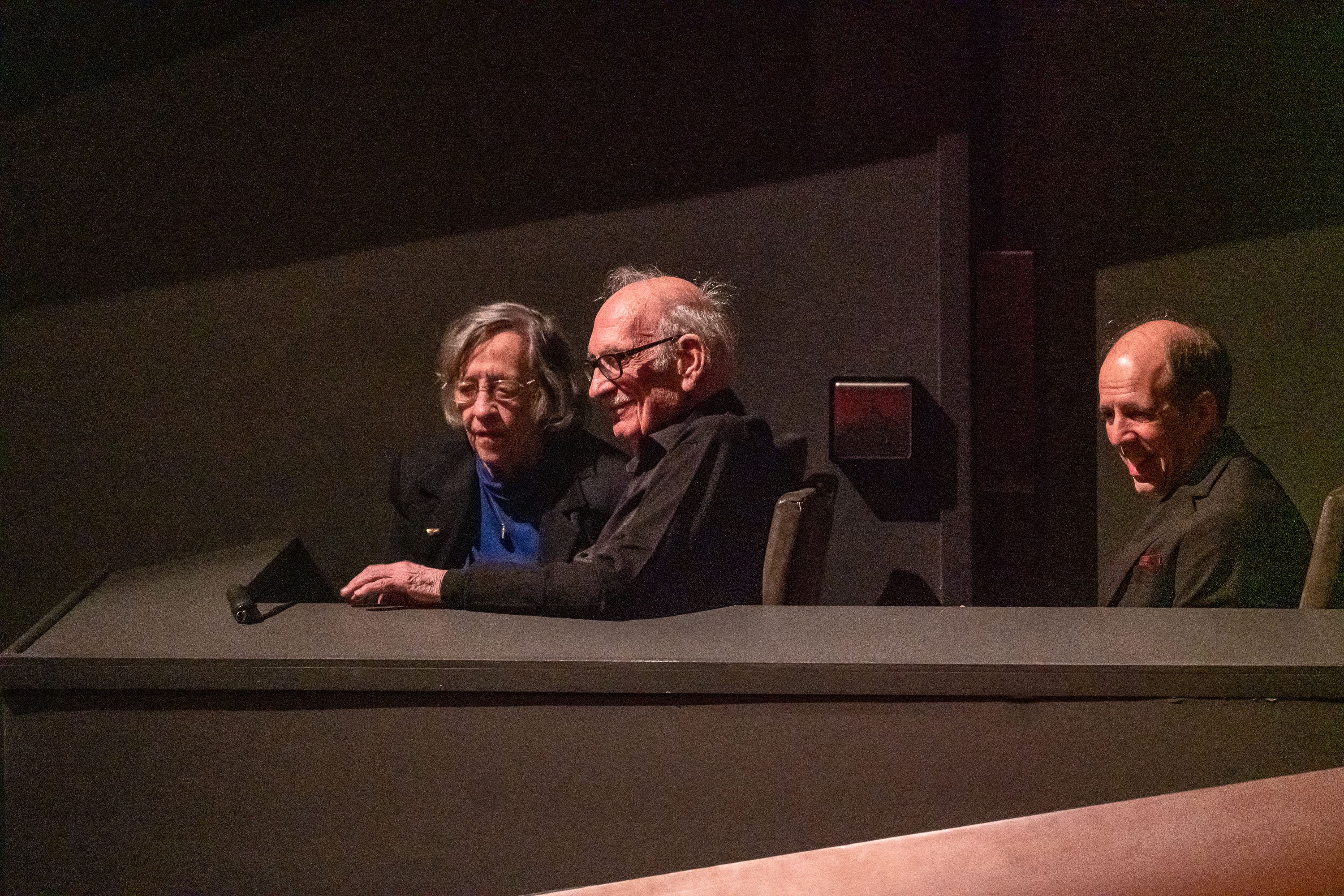 April 14, 2019 Alice Tully Hall Lincoln Center New York, NY Photo by Steven Pisano George Crumb and his wife Elizabeth watching the concert from a box seat.